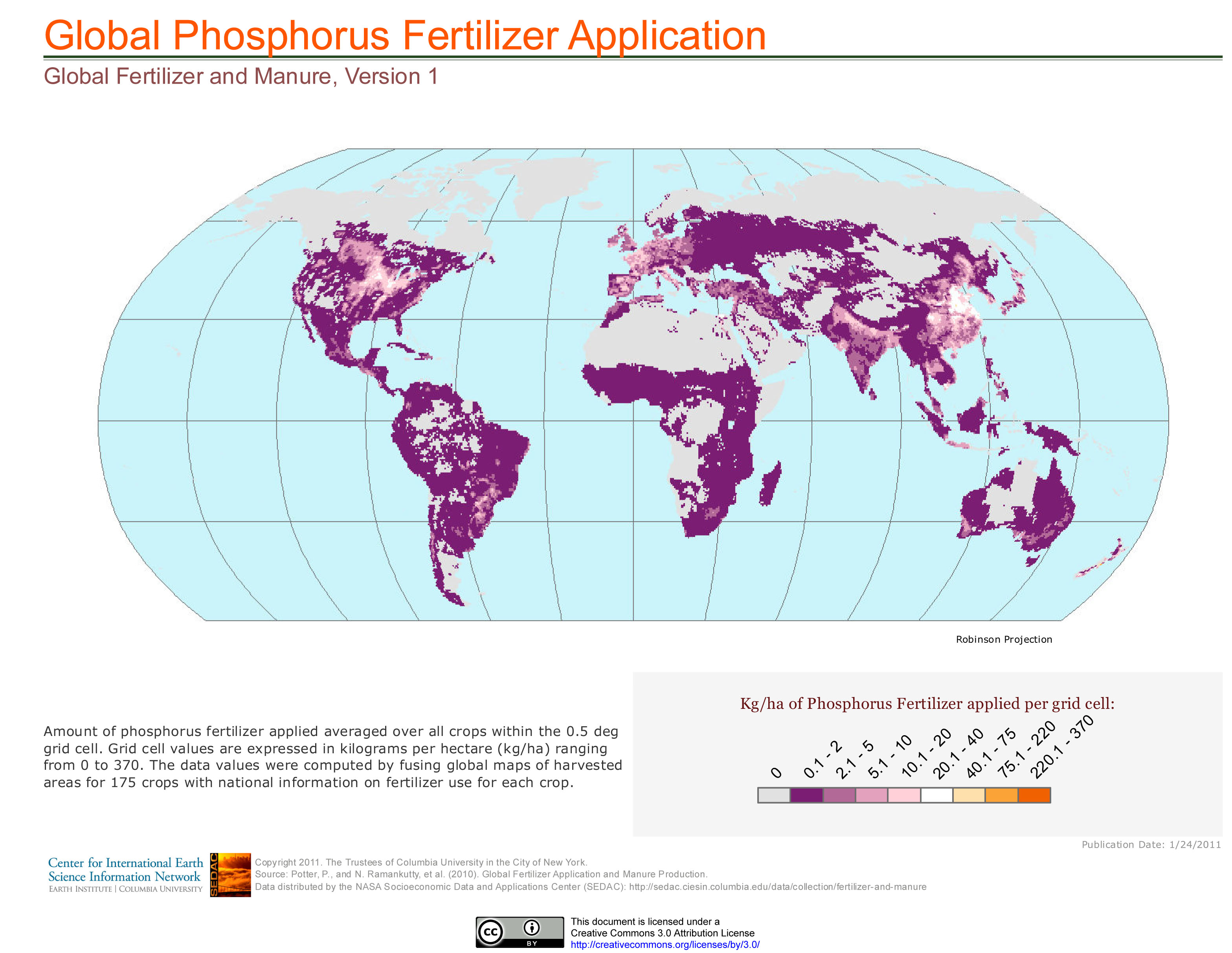 Amount of phosphorus fertilizer applied averaged within the 0.5 degree grid cell. Grid cell values are expressed in kilograms per hectare (kg/ha) ranging from 0-370. The data values were computed by fusing global maps of harvested areas for 175 crops with national information on fertilizer use for each crop.